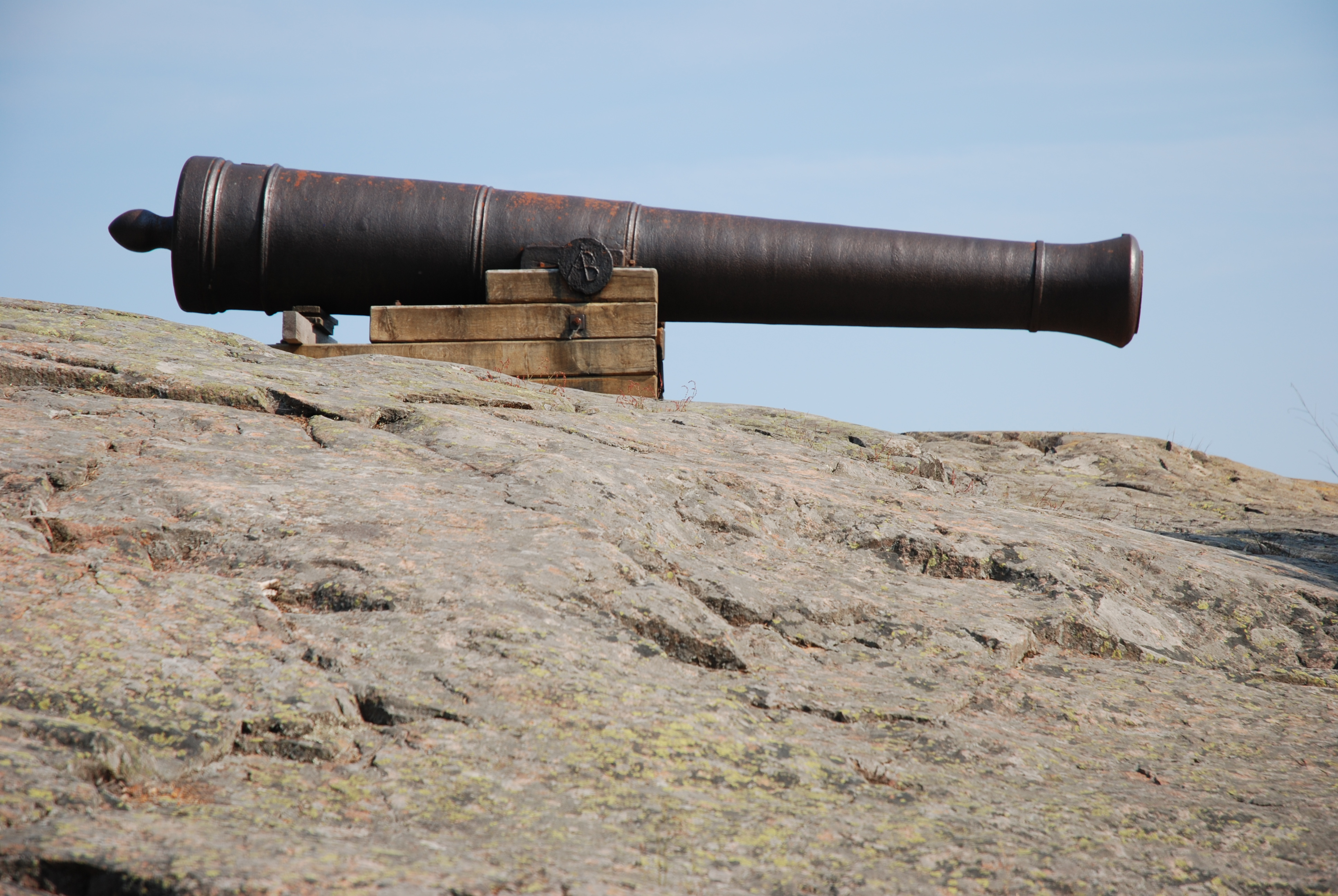 Coastal signal cannon, Grisslehamn